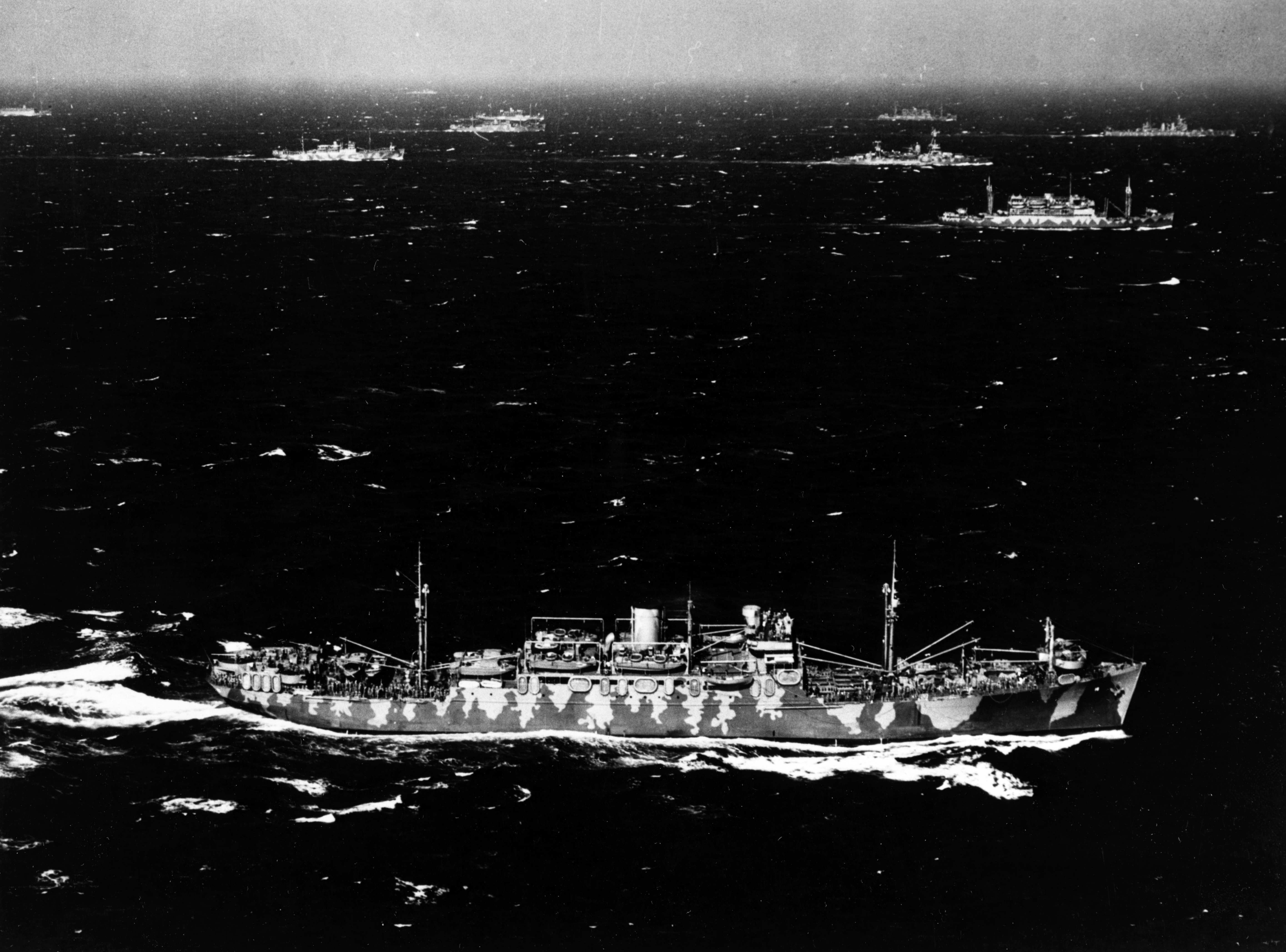 View of a convoy out of Brooklyn, New York (USA), February 1942: USS Neville (AP-16) is in the foreground. Other ships present include at least six other transports, a light cruiser and a battleship. This is probably the convoy that left the east coast on 19 February 1942, bound across the Atlantic to Belfast, Northern Ireland. Note the extensive use of Measure 12 (Modified) camouflage on these ships.